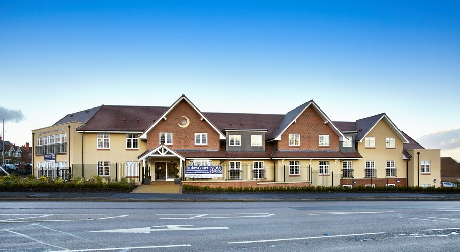 Dukes Court Care Home Wellingborough